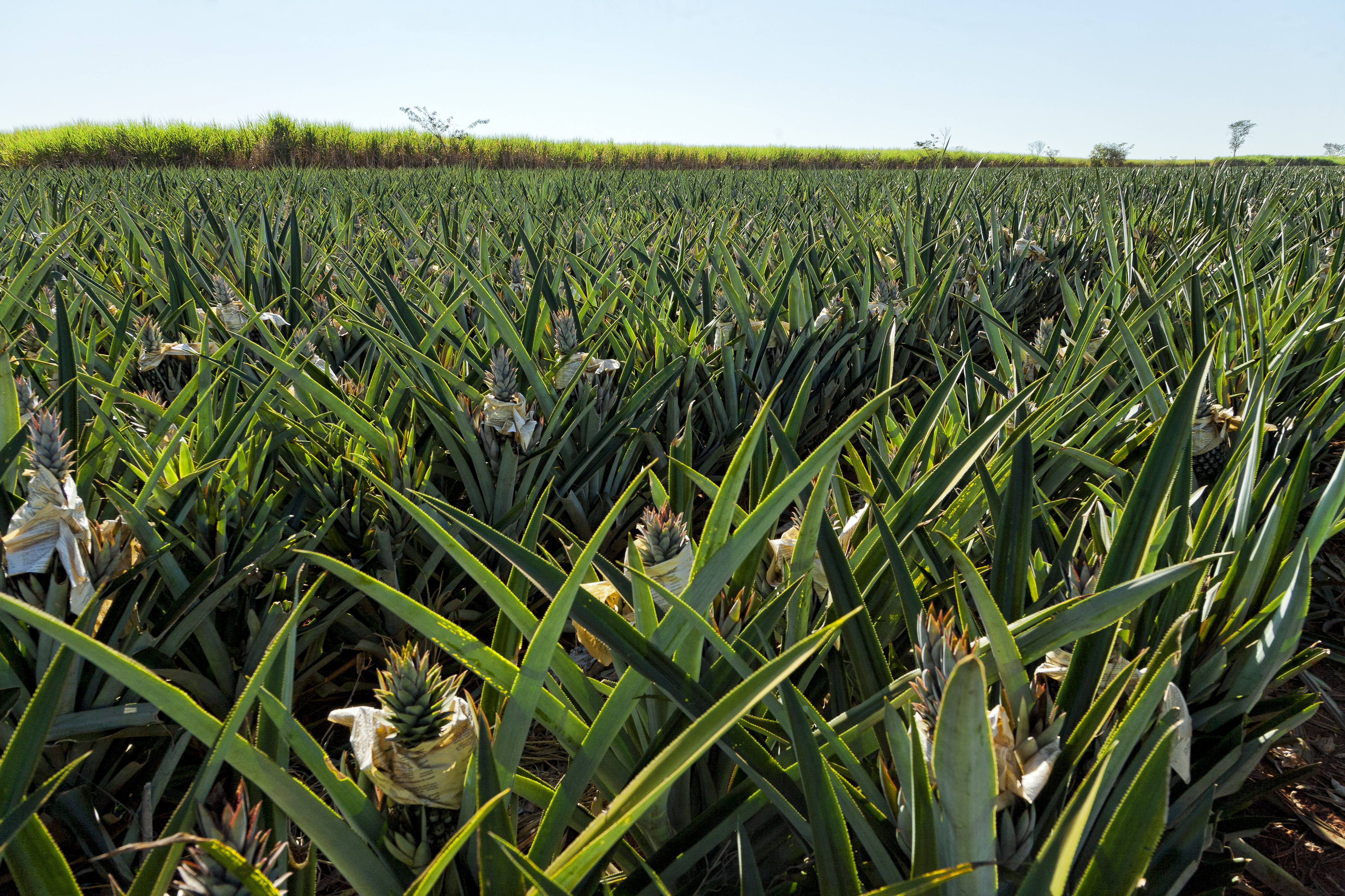 Fruits are wrapped in newspaper to protect from birds pecking